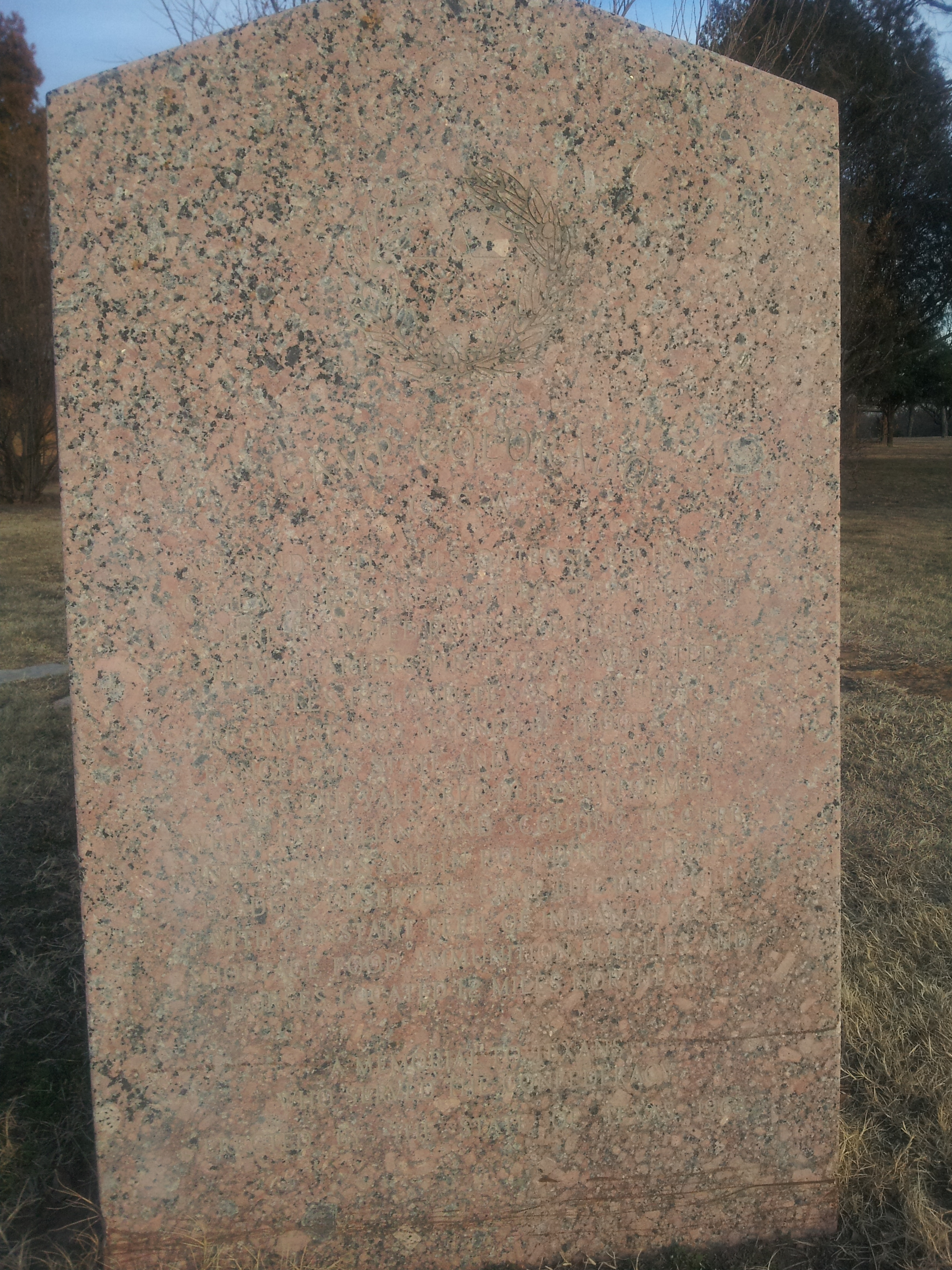 Camp Colorado CSA marker